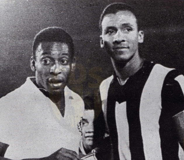 Pelé and Alberto Spencer posing together before Santos and Peñarol dispute the 2nd leg of the 1962 Copa Libertadores finals